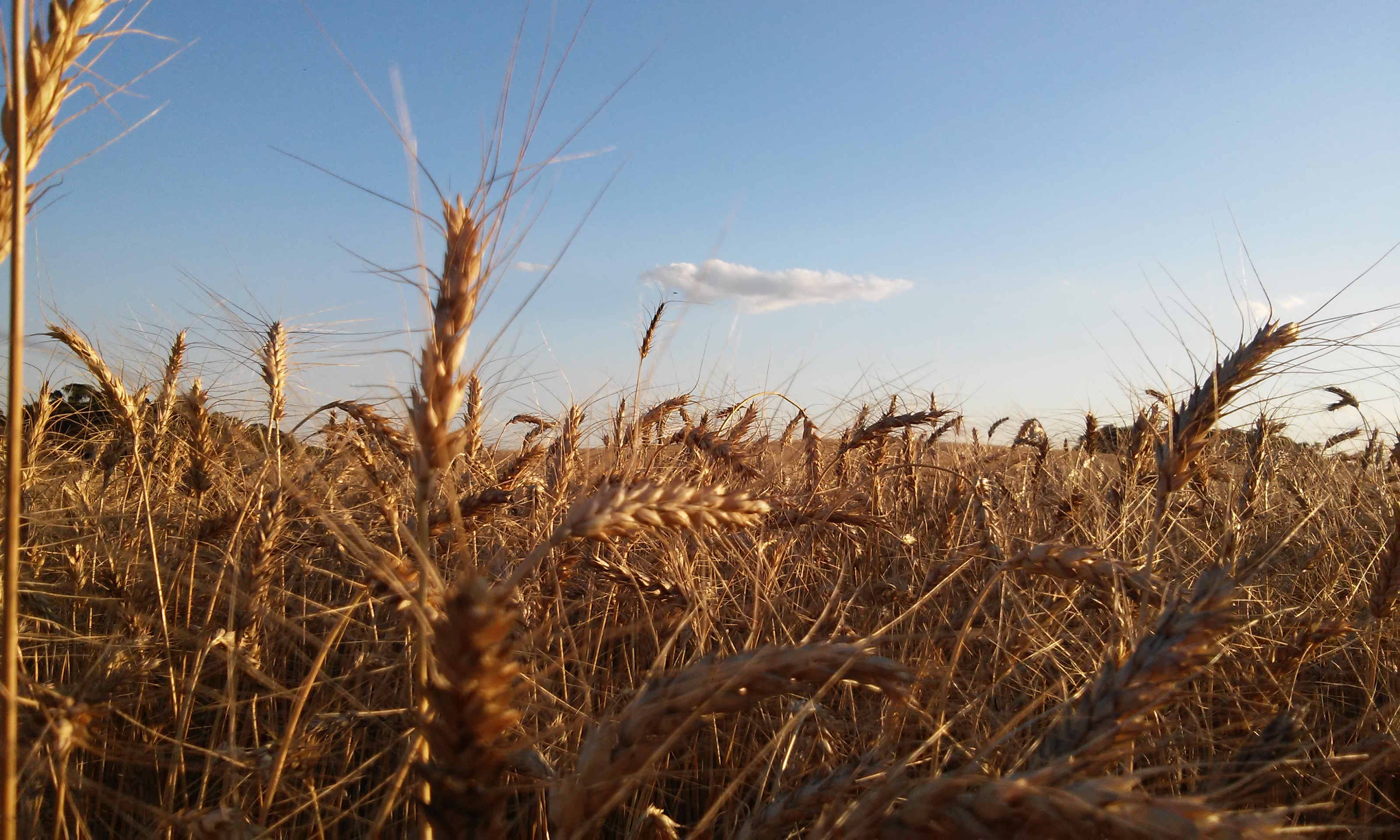 This is a wheat field in Parana